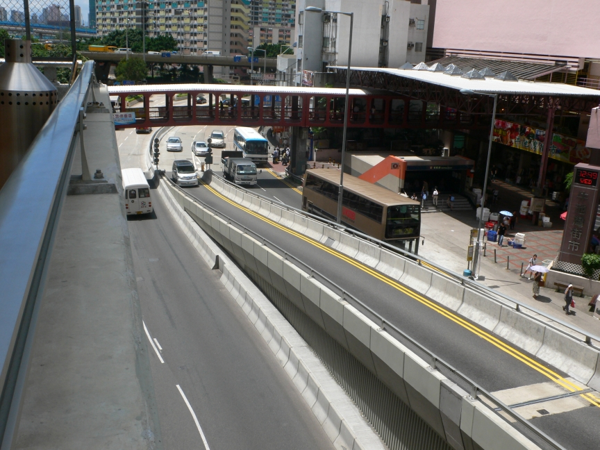 The starting point of Clear Water Bay Road, Hong Kong